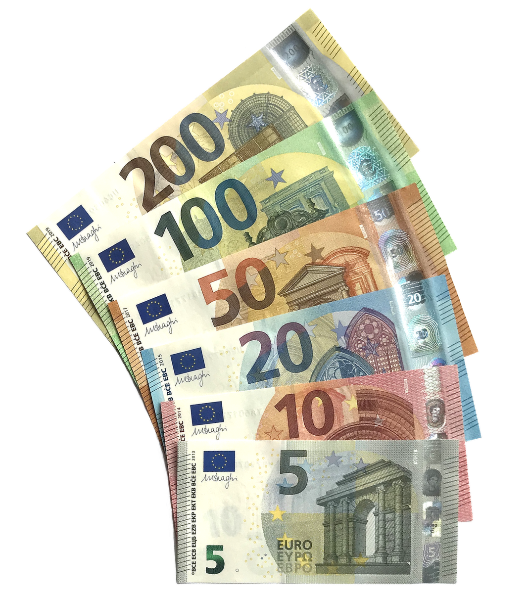 All the denominations of the Europa series of the euro, containing 200, 100, 50, 20, 10 and 5 euro banknotes.